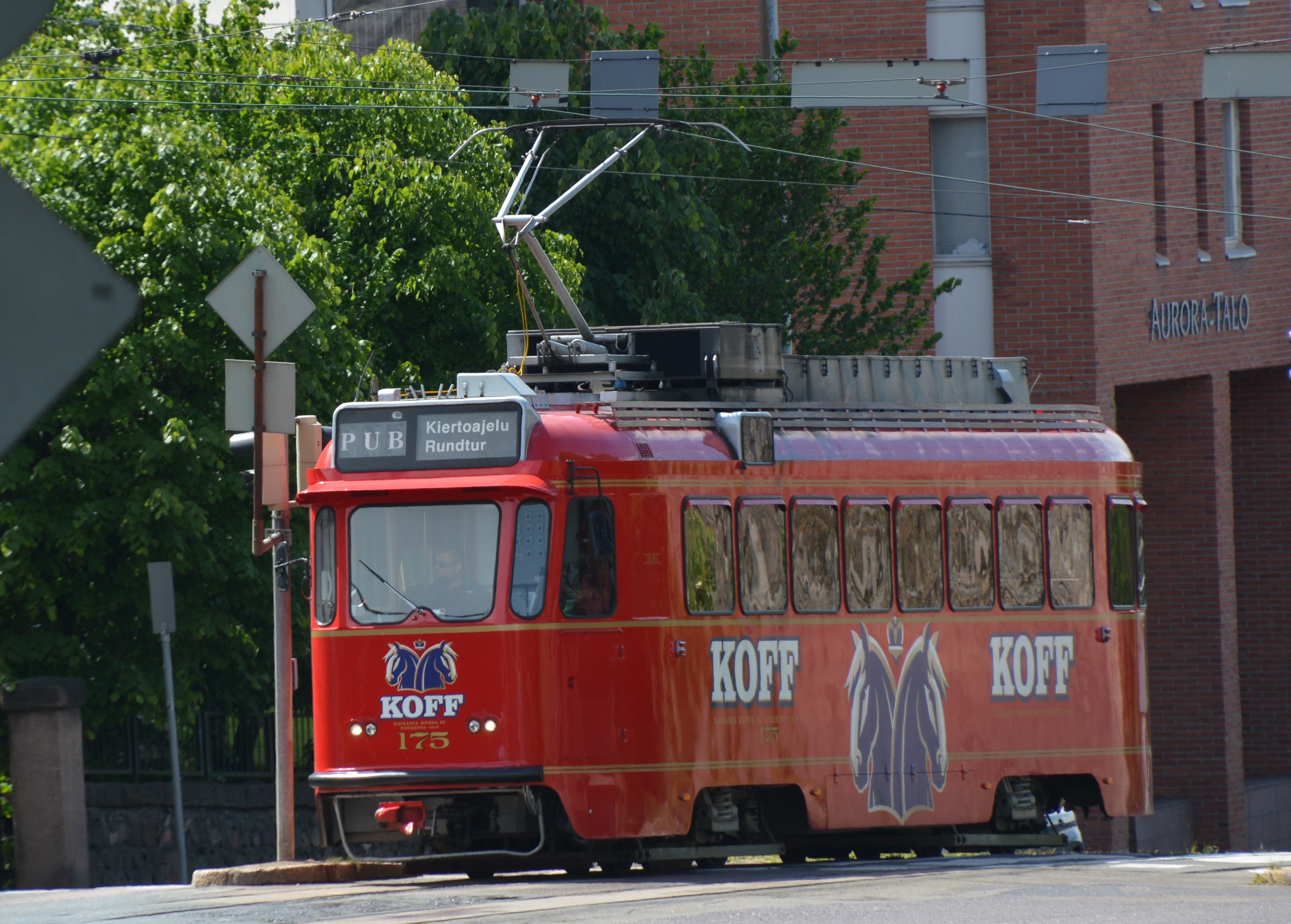 Pub tram Spårakoff, Helsinki.